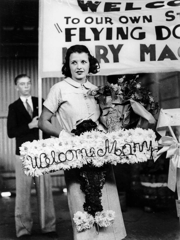 Actress Mary Maguire being welcomed home at Brisbane, 1936. Mary Maguire played the lead in 'The Flying Doctor'. She was contracted to Gaumont-British Films for two years in 1936. (Description supplied with photograph).